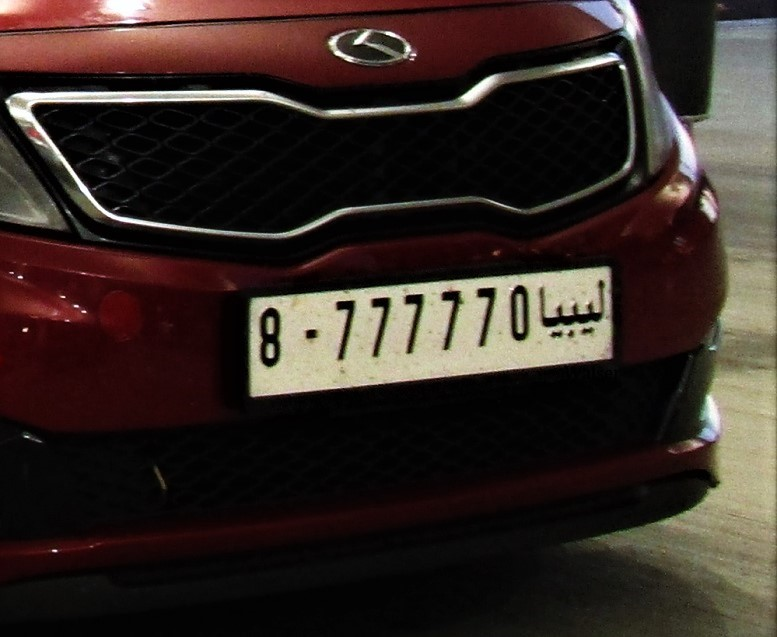 Libyan license plate Benghazi, seen in Bregenz, Austria